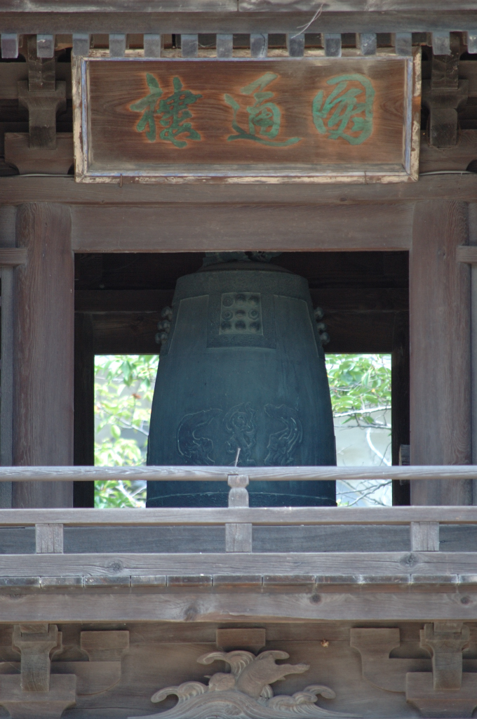 Chosen-sho(a Korean temple bell).This is designated as important cultural property by the Japanese government.